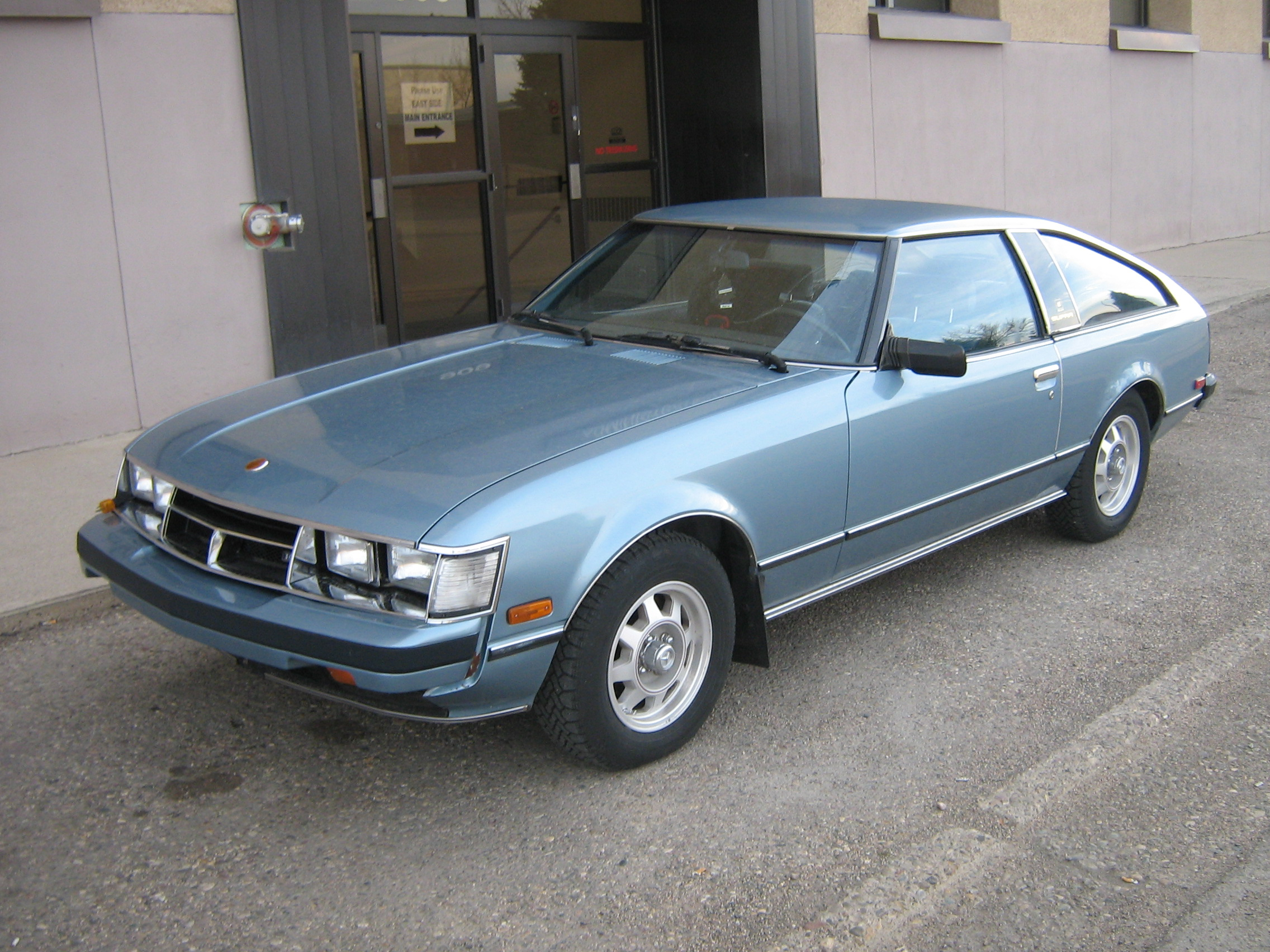 Amazingly nice, clean early Toyota Supra.